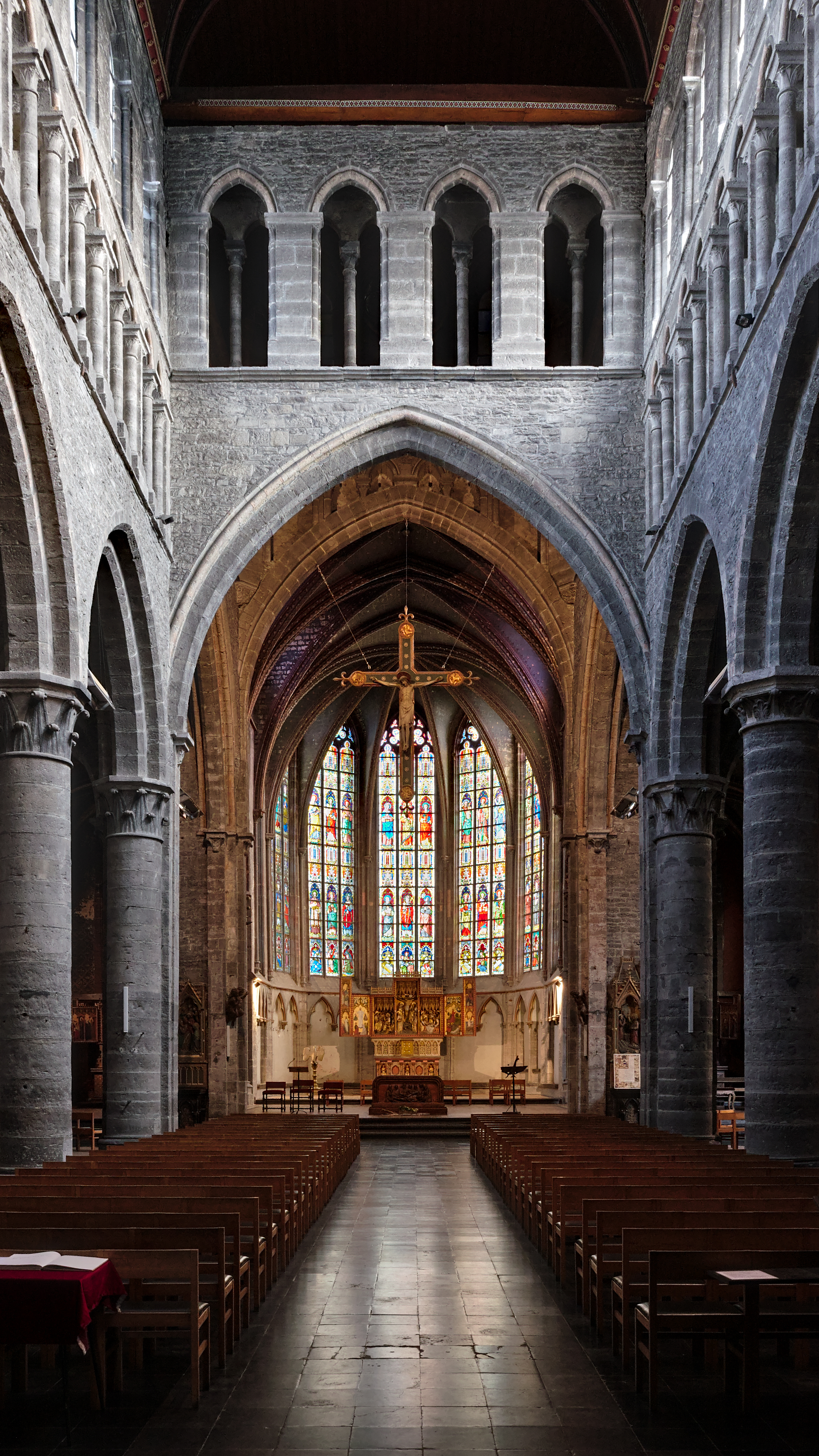 Interior of église Saint-Jacques in Tournai This photo of immovable heritage has been taken in the Walloon Region